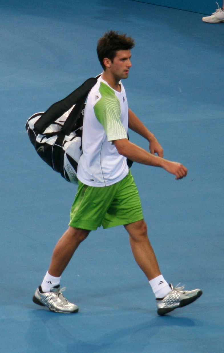 Novak Đoković at 2009 Brisbane International, Brisbane, Australia.